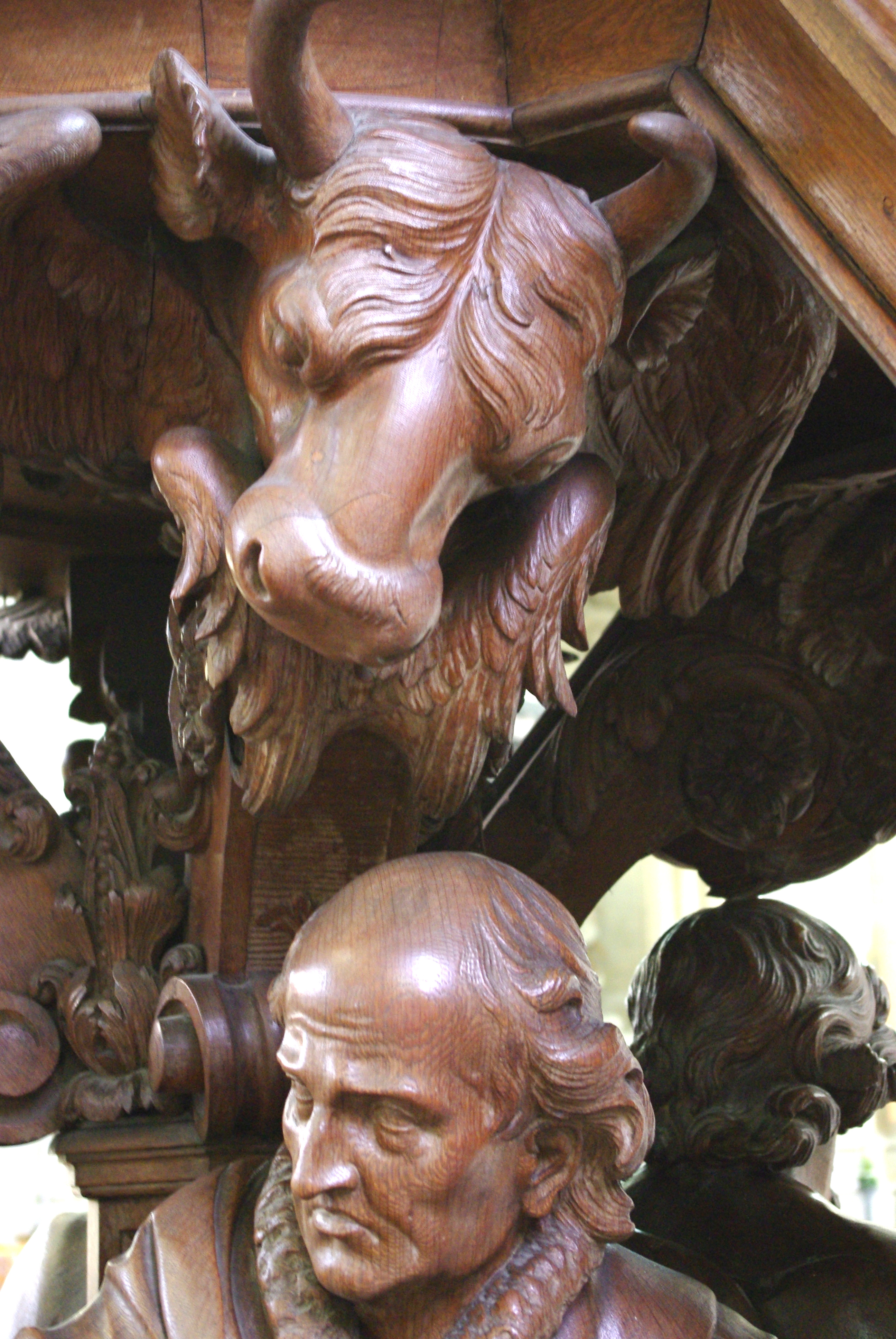 Pulpit of the Onze-Lieve-Vrouw-over-de-Dijlekerk in Mechelen (Belgium): St_Luke (detail), door Willem Ignatius Kerricx